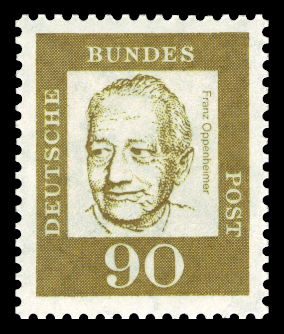 Stamps series of distinguished German Graphics by Michel und Kieser Ausgabepreis: 90 Pfennig First Day of Issue / Erstausgabetag: 3. August 1964 Michel-Katalog-Nr: 360